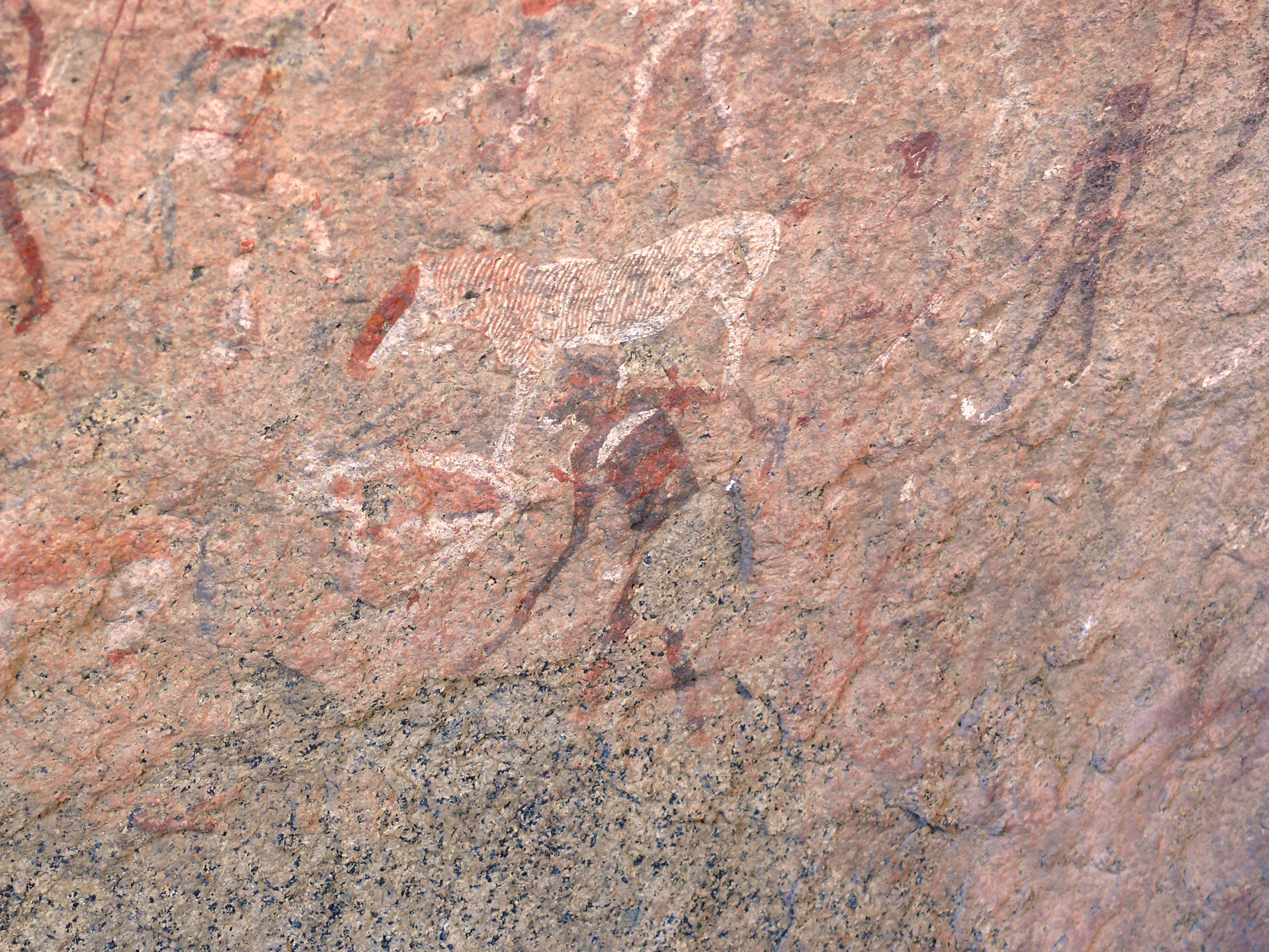 Quagga, White Lady, Brandberg